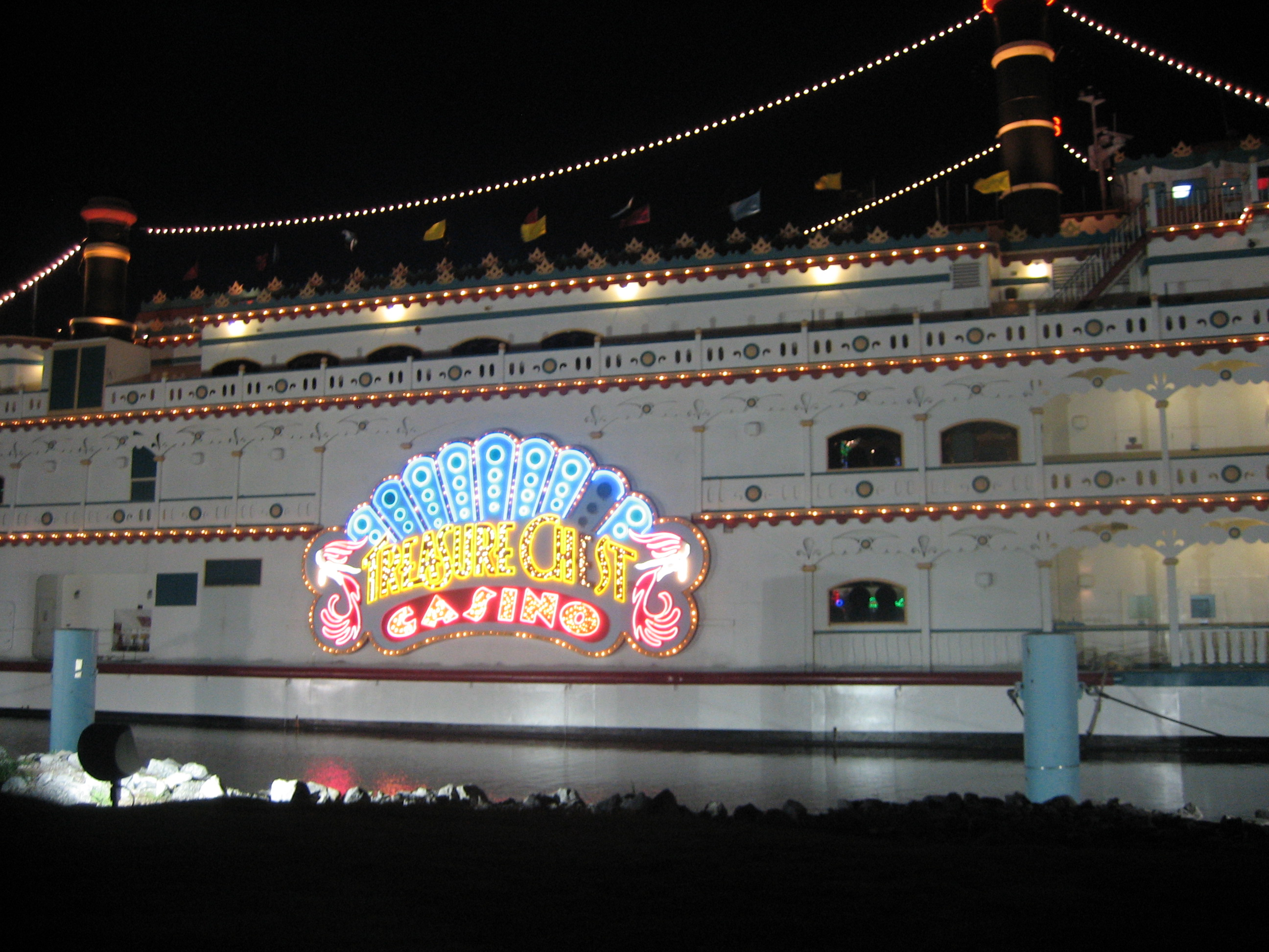 Treasure Chest Casino at night, Kenner, Louisiana.